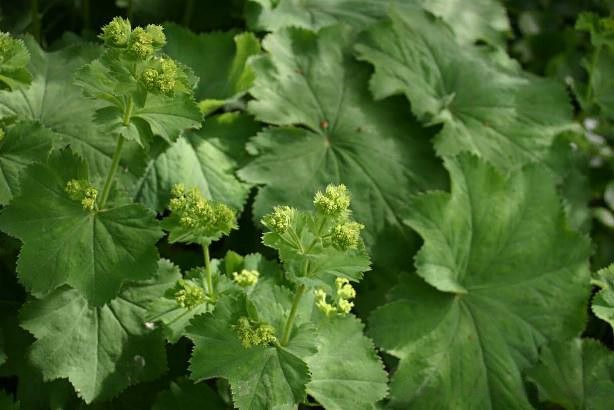 Alchemilla vulgaris: flowers and foliage